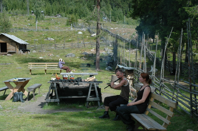 Flute tones in Ransbysätern, Sweden.